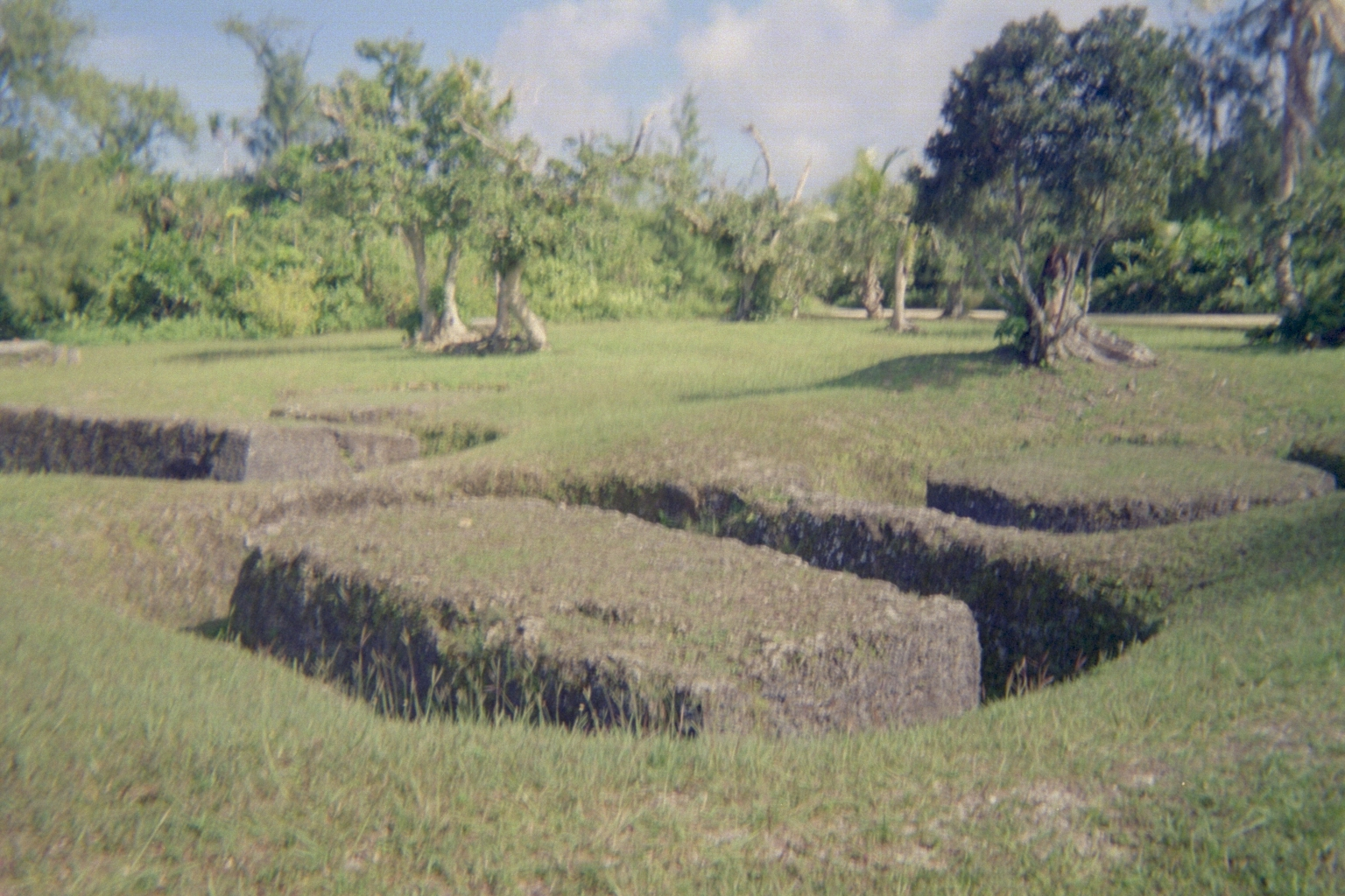 latte stone quarry in northeast Rota